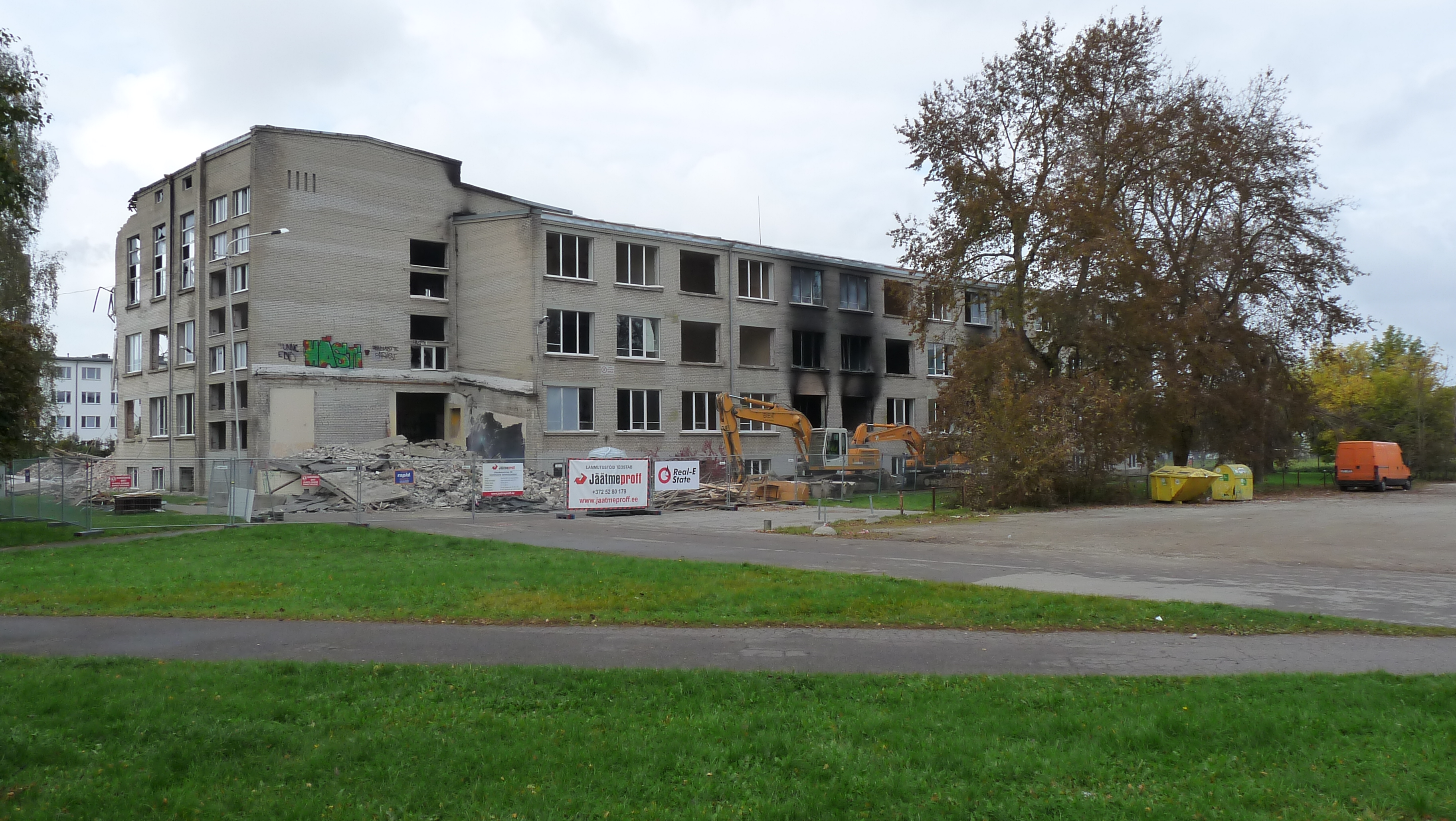 Abandoned school in Tallinn, Estonia